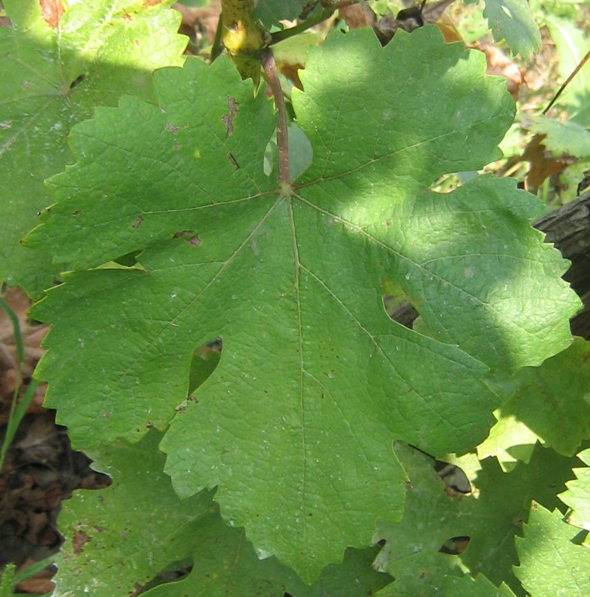 Rara Neagra leaf